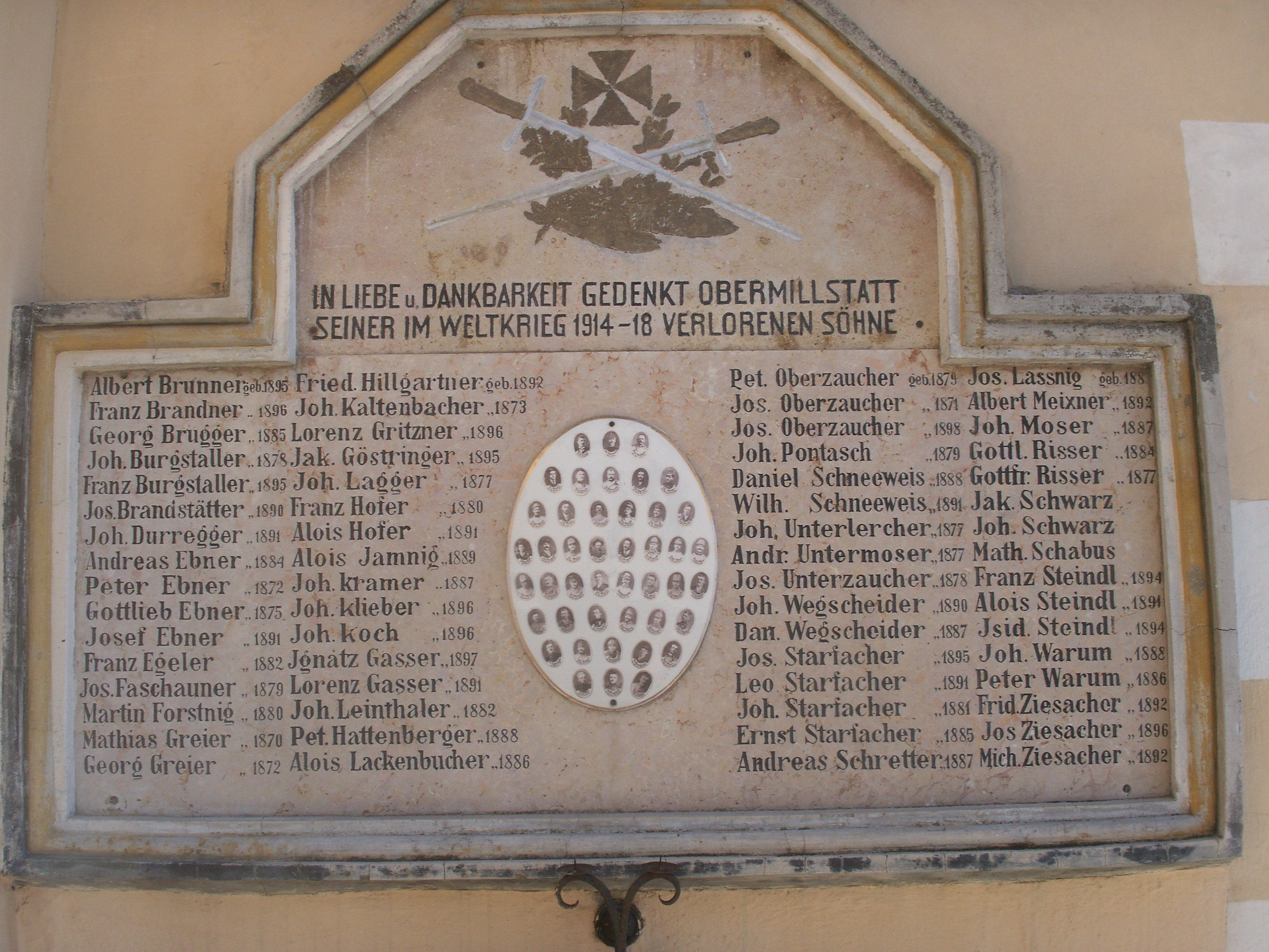 Memorial on the church of Obermillstatt near Lake Millstatt (Millstätter See), district Spittal an der Drau in Carinthia / Austria / European Union.